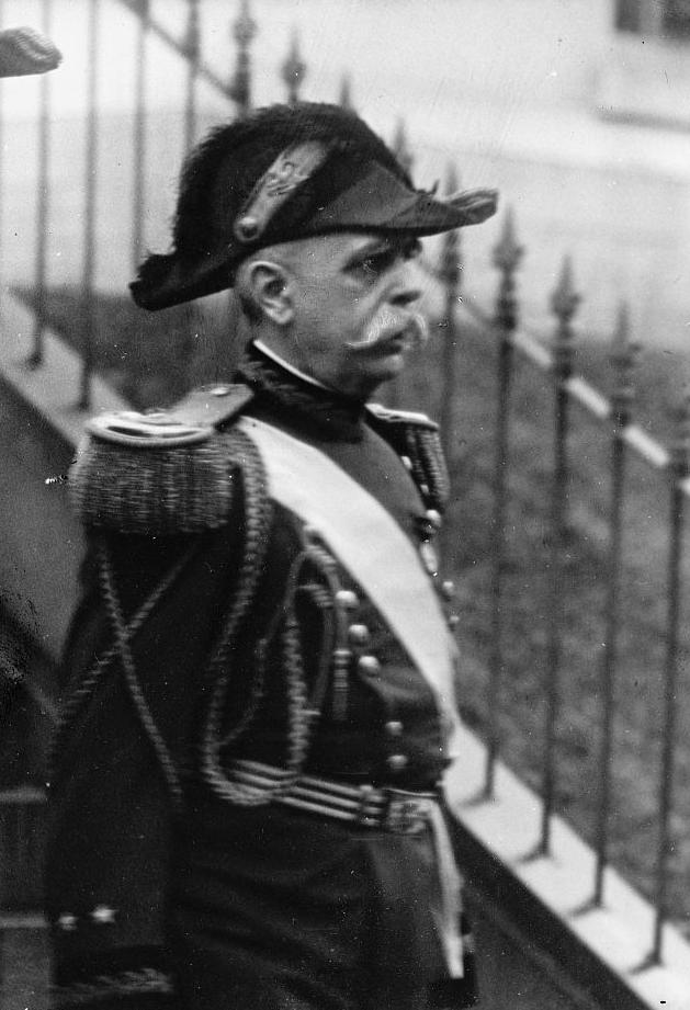 Major General Frederick Crayton Ainsworth at New Years reception.